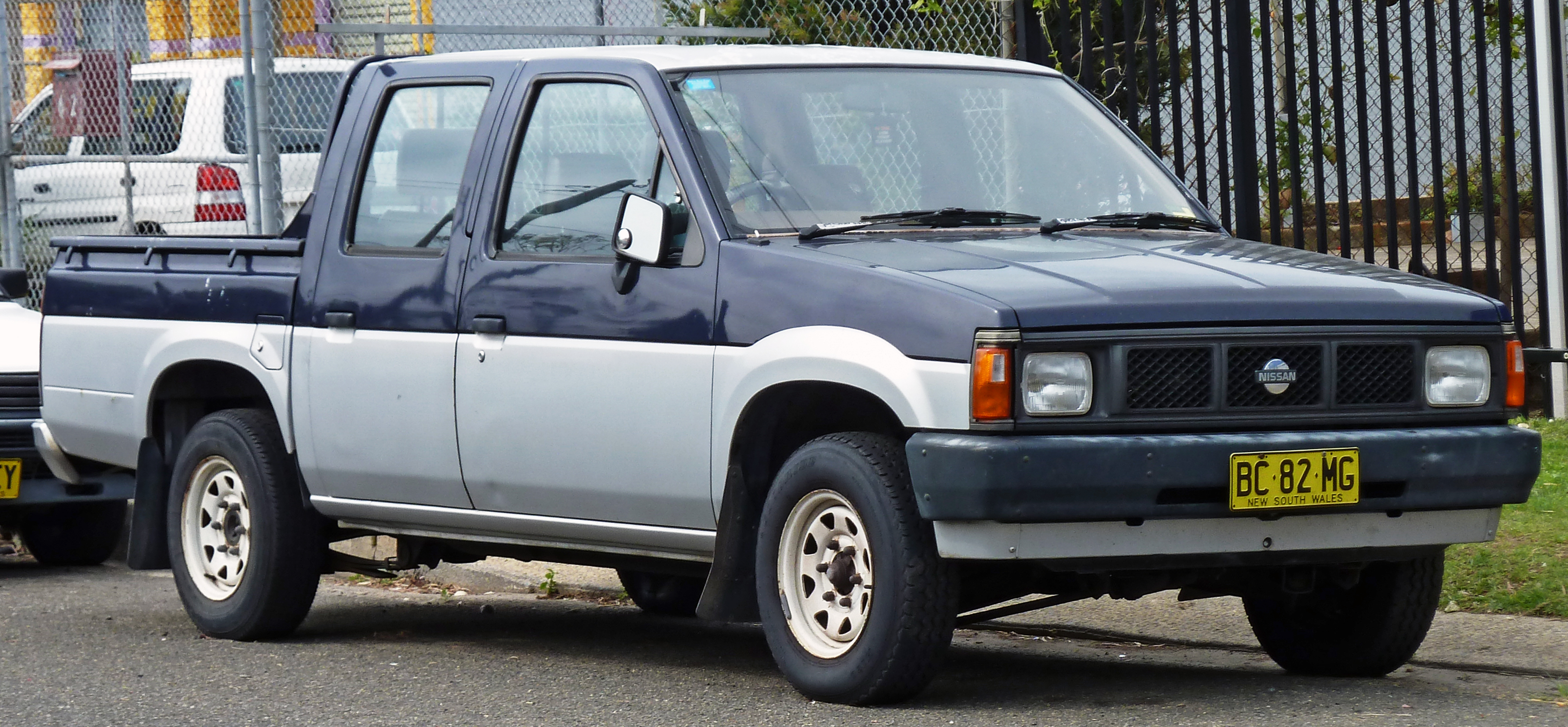 1989 Nissan Navara (D21) 4-door utility. Photographed in Caringbah, New South Wales, Australia.